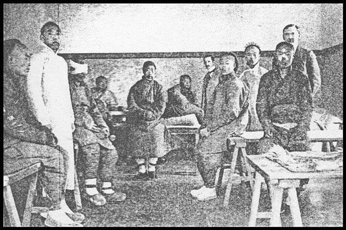 A Ward in the APM An-ting Hospital for Men in Peking.